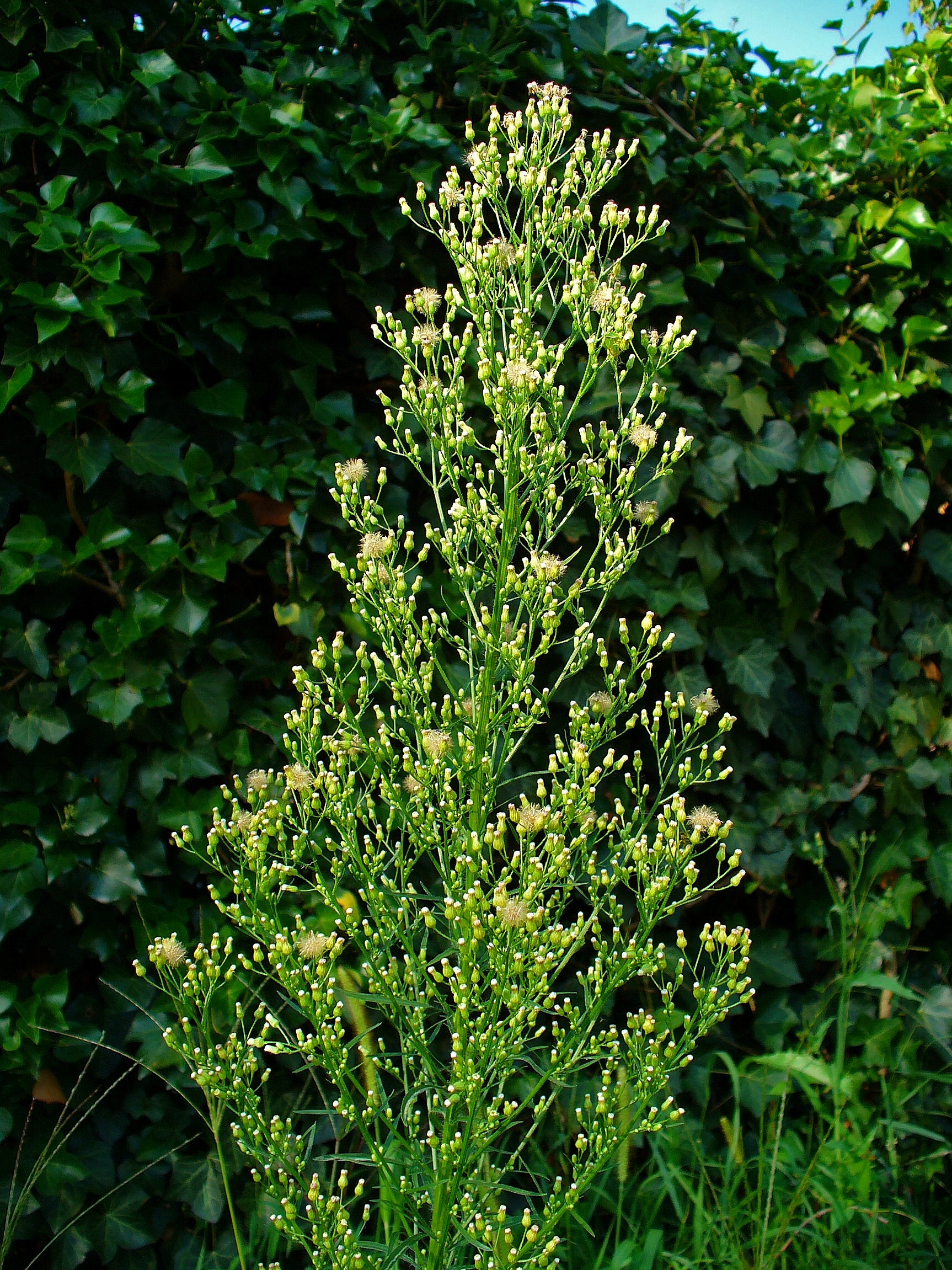 Conyza canadensis, Asteraceae, Canadian Horseweed, Canadian Fleabane, Coltstail, Marestail, Butterweed, inflorescences; Karlsruhe, Germany. The fresh aerial parts of the blooming plant are used in homeopathy as remedy: Erigeron canadensis (Erig.)